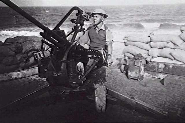 DERNA, LIBYA. 1941-03. GUNNER R K BRYANT LOOKING THROUGH THE SIGHTS OF A 20/65 BREDA MODEL 35 20MM CANNON OPERATED BY 8 BATTERY, 2/3RD LIGHT ANTI AIRCRAFT REGIMENT. THIS UNIT WAS EQUIPPED WITH CAPTURED ITALIAN GUNS.